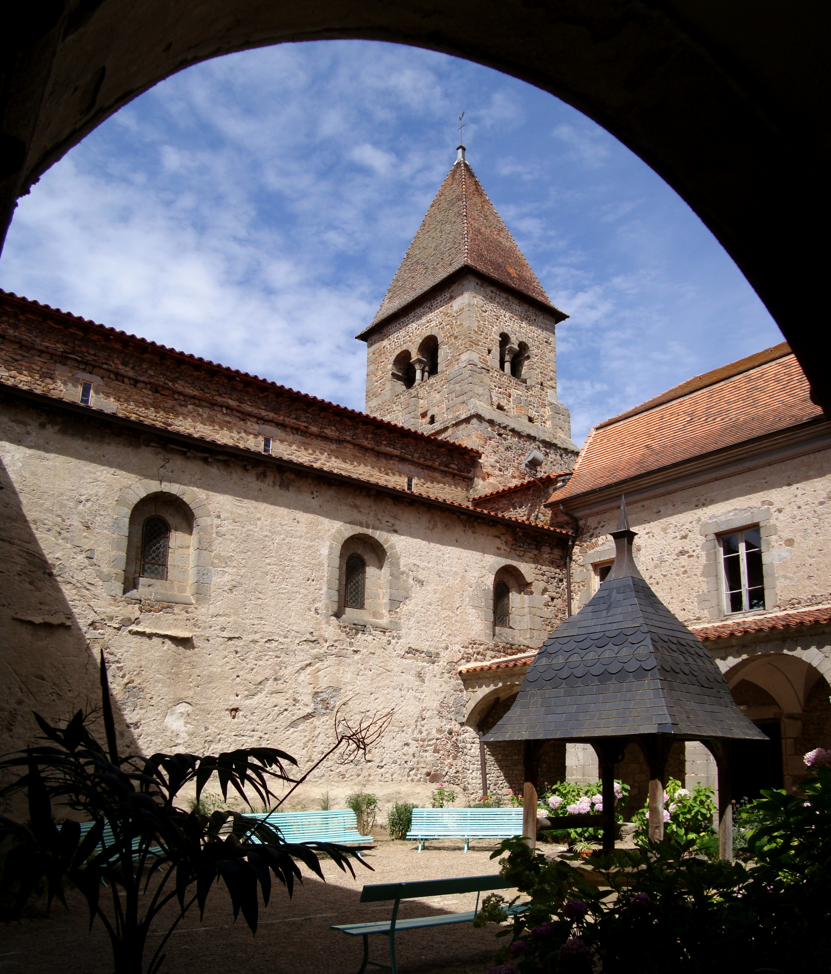 The cloister of the priory of Pommiers.